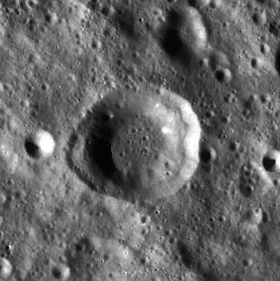 Nijland lunar crater - LROC image